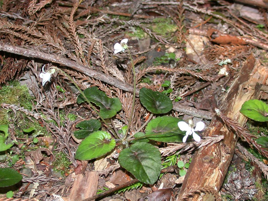 Viola maximowicziana(Violaceae)